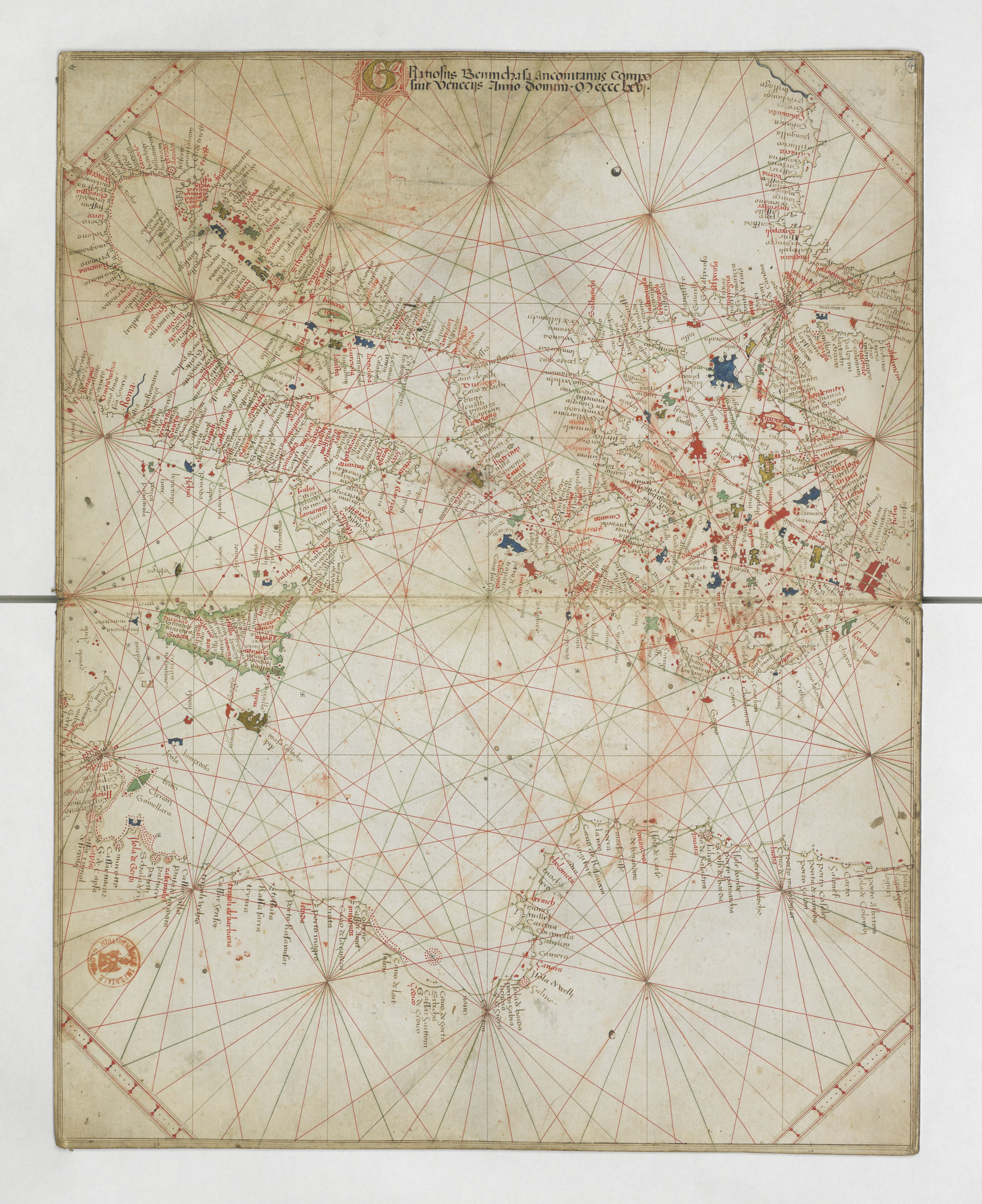 1466 Portolan chart of the Eastern Mediterrenean, the Aegean Sea and the Sea of Marmara by Grazioso Benincasa